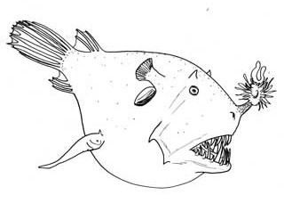 Drawing of the leftvent anglerfish, Borophryne apogon